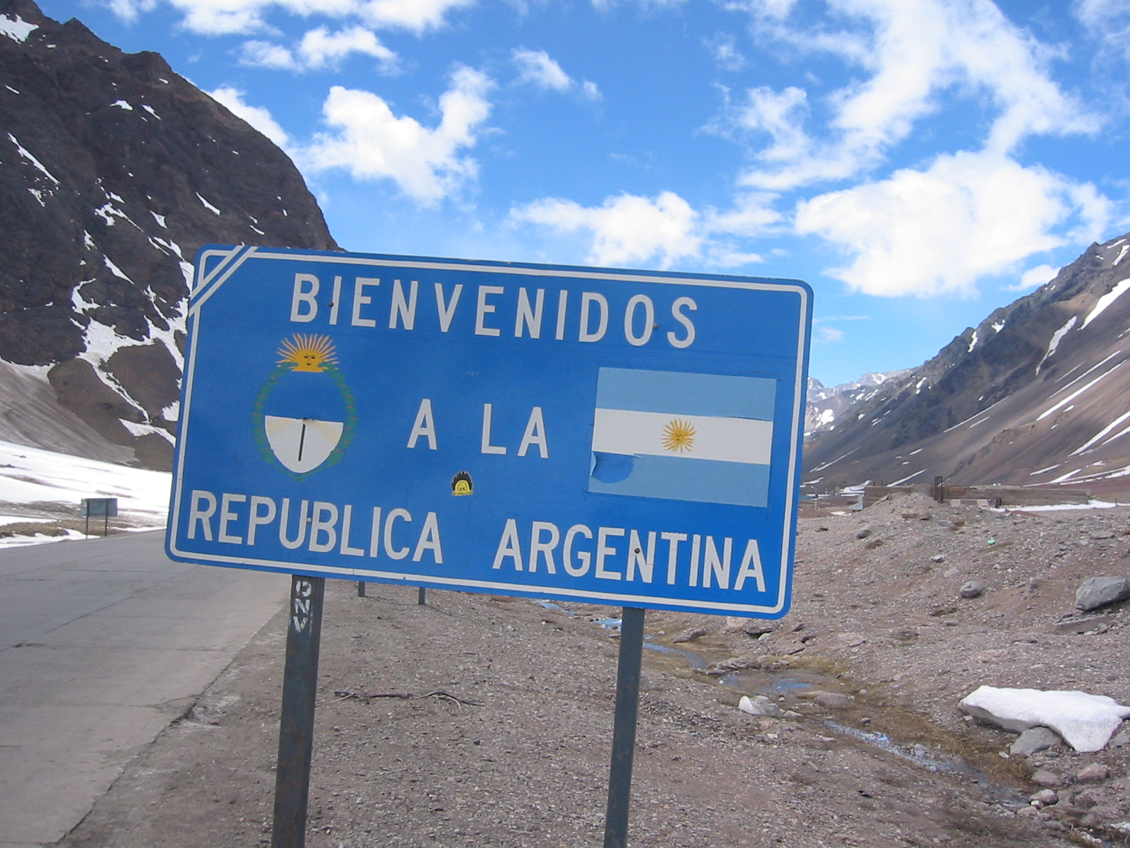 A road sign in the Argentinian province of Mendoza "Welcome to Argentina".